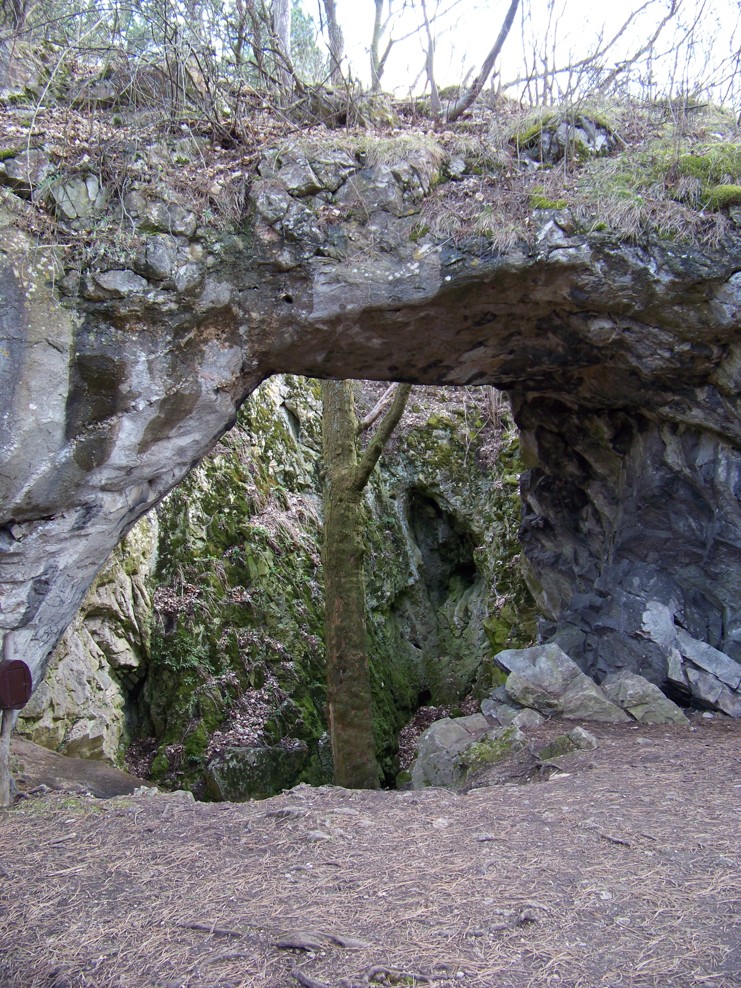 Koněprusy, Beroun District, Central Bohemian Region, the Czech Republic. Kotýz hill, Aksamit Gate.